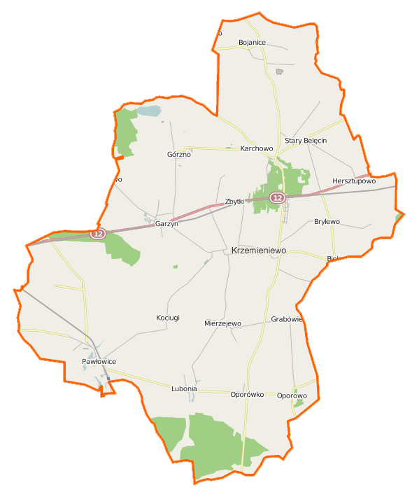 Map of Gmina Krzemieniewo, Poland This map of Krzemieniewo (gmina) was created from OpenStreetMap project data, collected by the community. This map may be incomplete, and may contain errors. Don't rely solely on it for navigation. Border coordinates51.934116.7057←↕→16.911451.7831